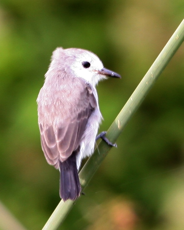 White-headed Marsh Tyrant (Arundinicola leucocephala). A female at Ibera Marshes, Argentina.